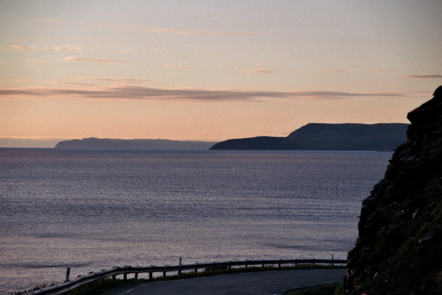 Between Ifjord and Hopseidet / Nordkinnpeninsula / Finnmark / Norway